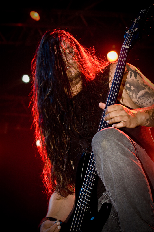 Eric Bischoff, bassist of the metal/metalcore band Heaven Shall Burn, at Resurrection Festival 2010.